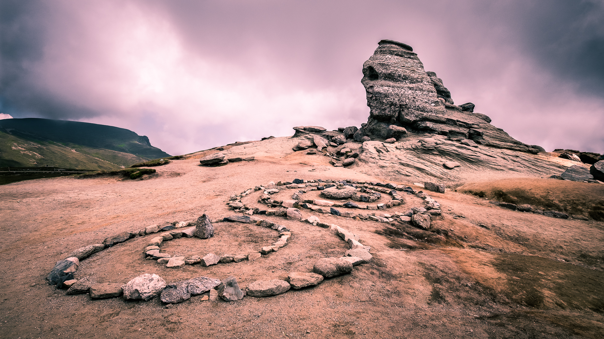 The Sphinx, Bucegi Mountains